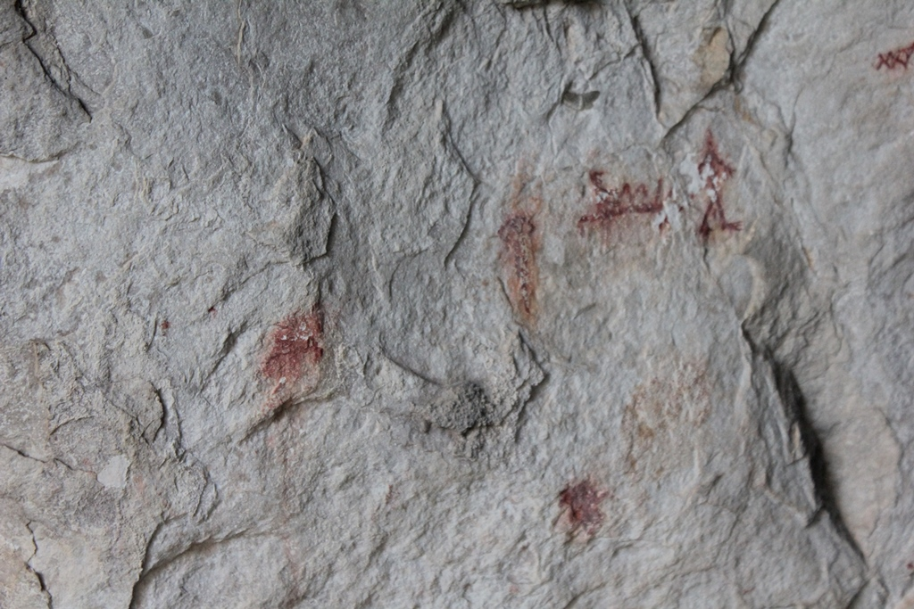 Abrigos de Barfaluy, Barfaluy I